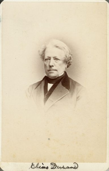 Photograph of Elias Durand (January 25, 1794 - August 15, 1873), born Élie Magloire Durand, eminent American pharmacist and botanist. Photographer's credit on back reads, "Gutekunst Photographer, 712 Arch St. Philada."